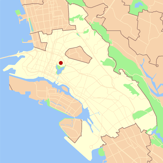 Map showing the location of Adams Point in the city of Oakland, California.